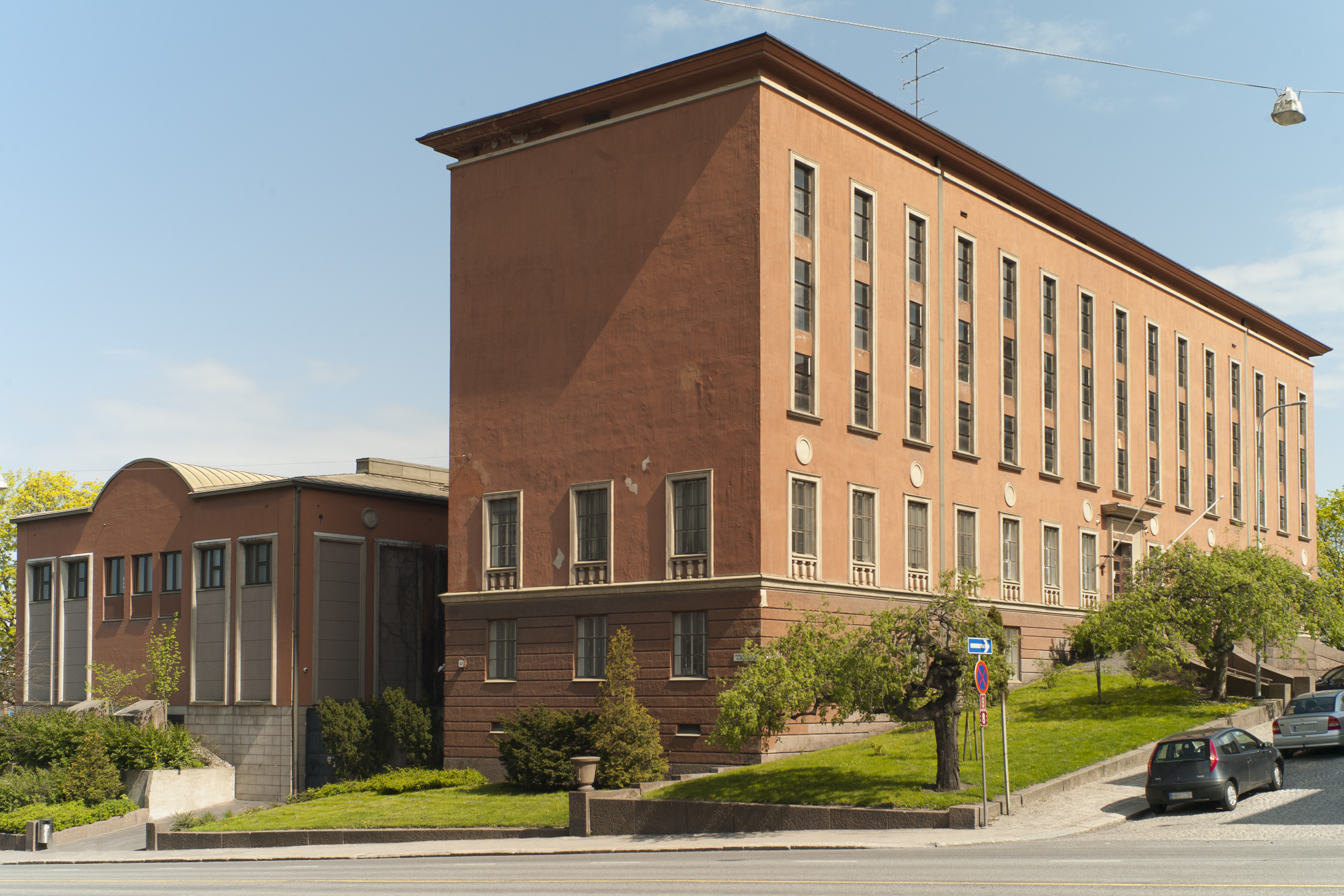 The Provincial Archives of Turku, Aninkaistenkatu 11, Turku, Finland.